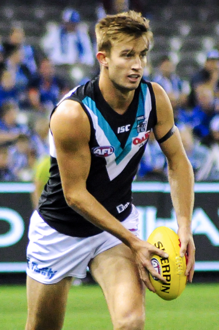 Dougal Howard during the AFL round six match between North Melbourne and Port Adelaide on Saturday, 28 April 2018 at Etihad Stadium in Melbourne, Victoria.